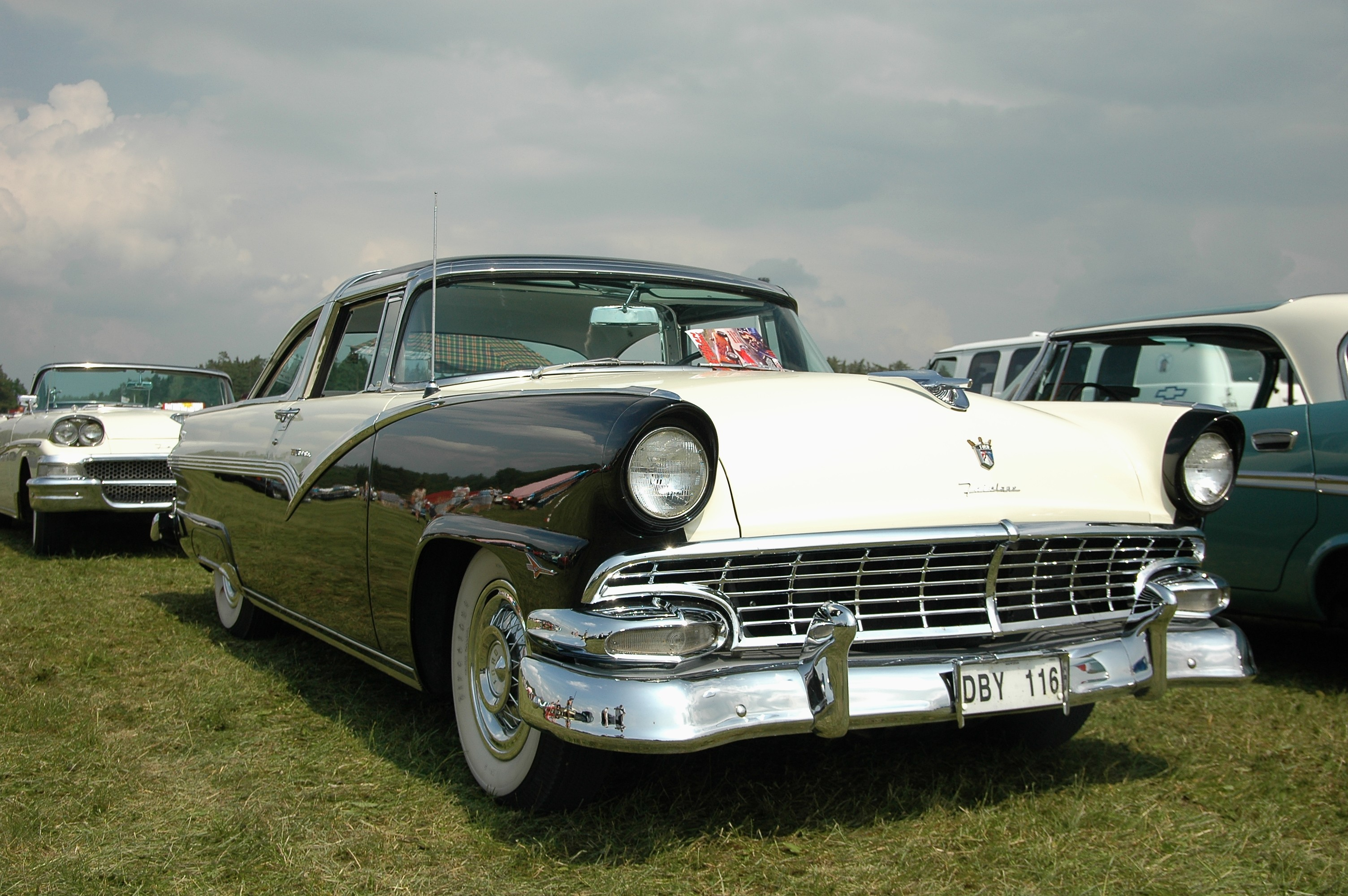 USA vehicle